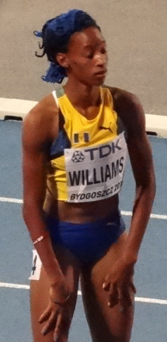 2016 IAAF World U20 Championships in Bydgoszcz, 200m women semi-final